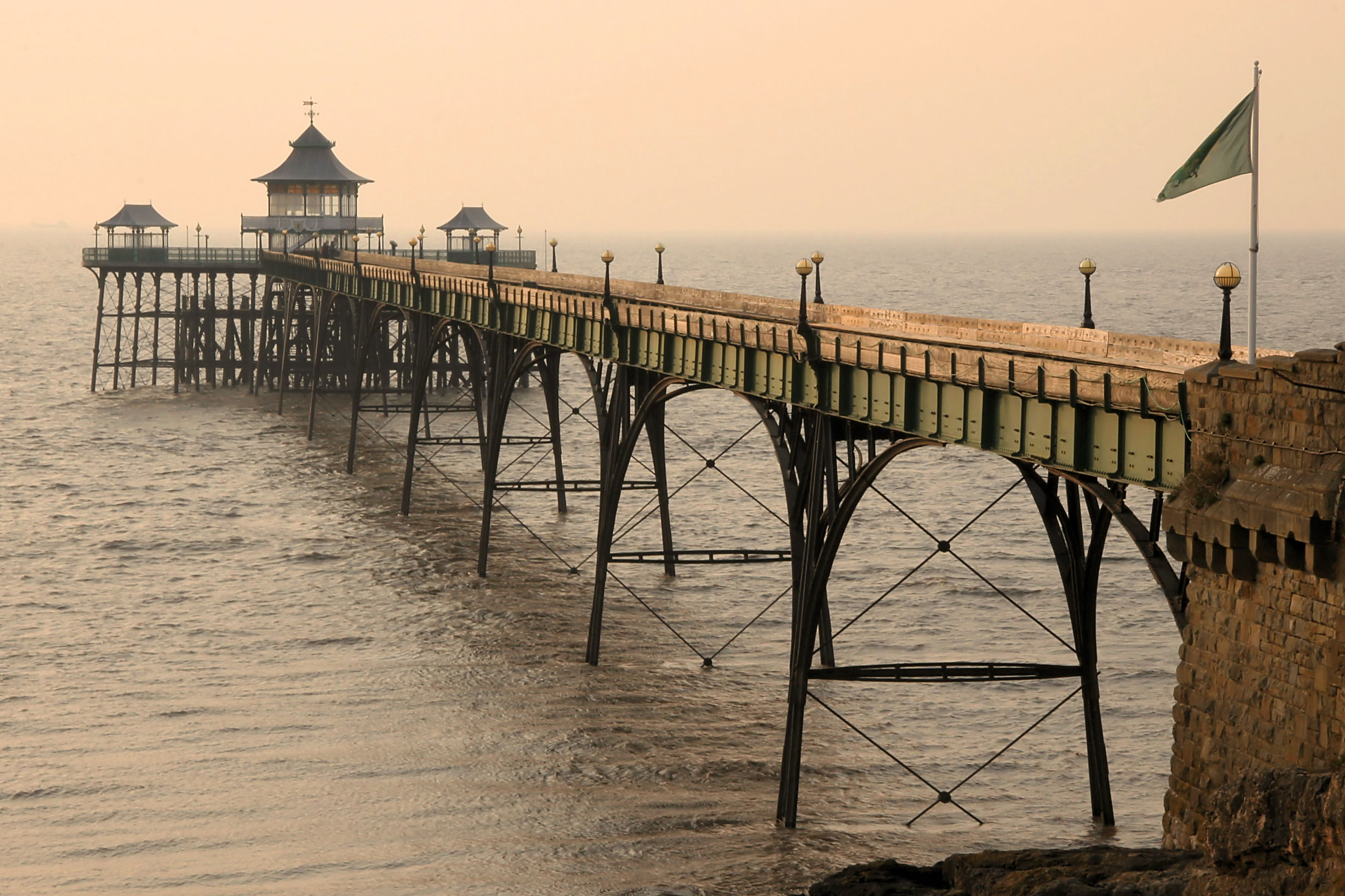 Clevedon Pier in the city of Clevedon, county of Somerset, England.